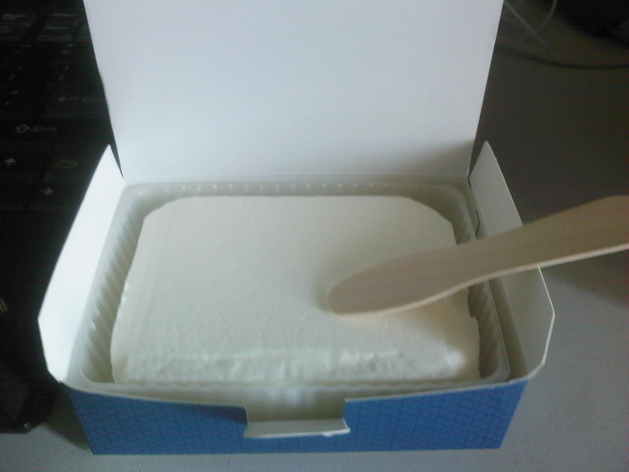 Yili ice cream brick